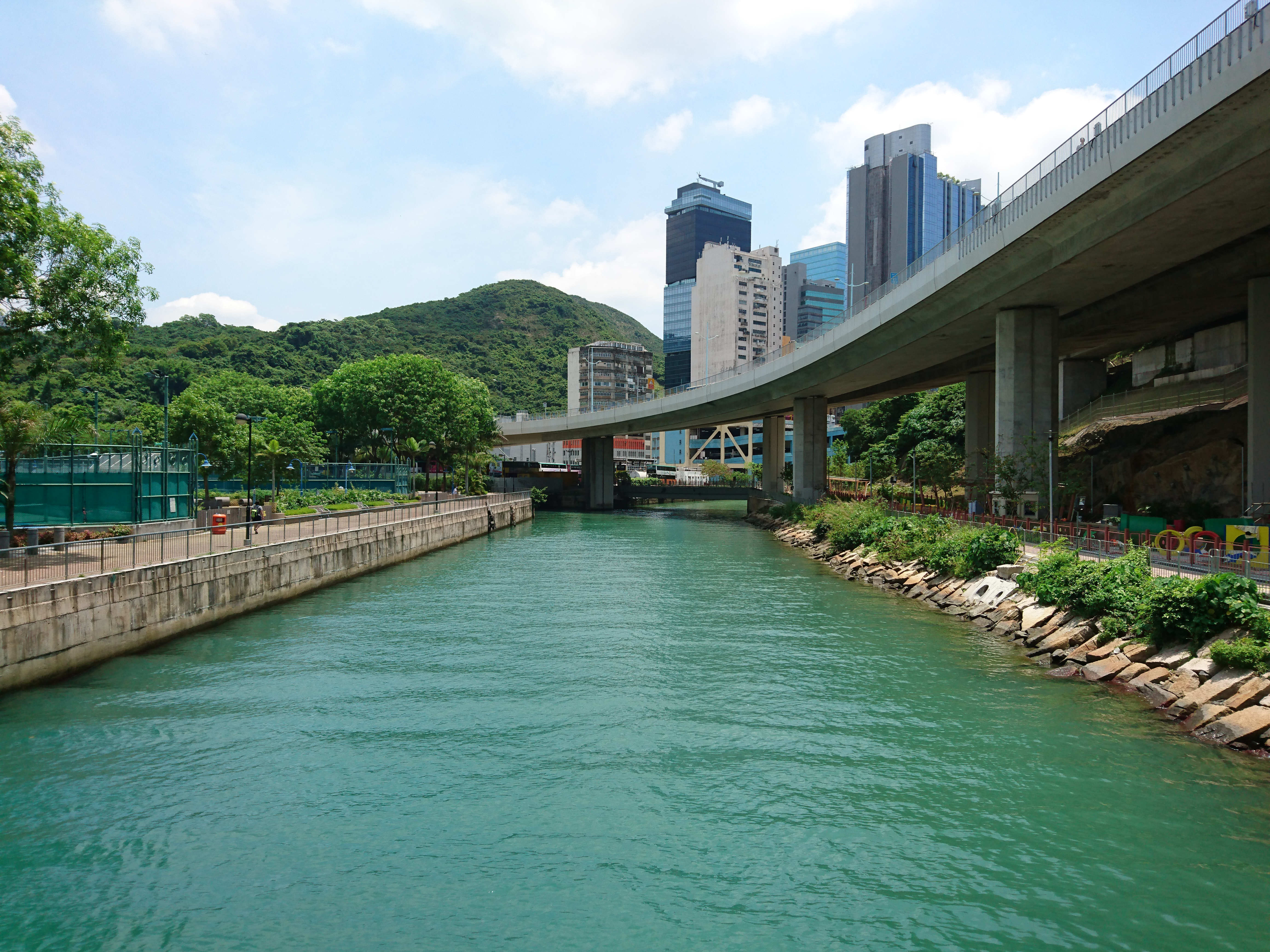 Staunton Creek Nullah near Aberdeen Tennis & Squash Centre